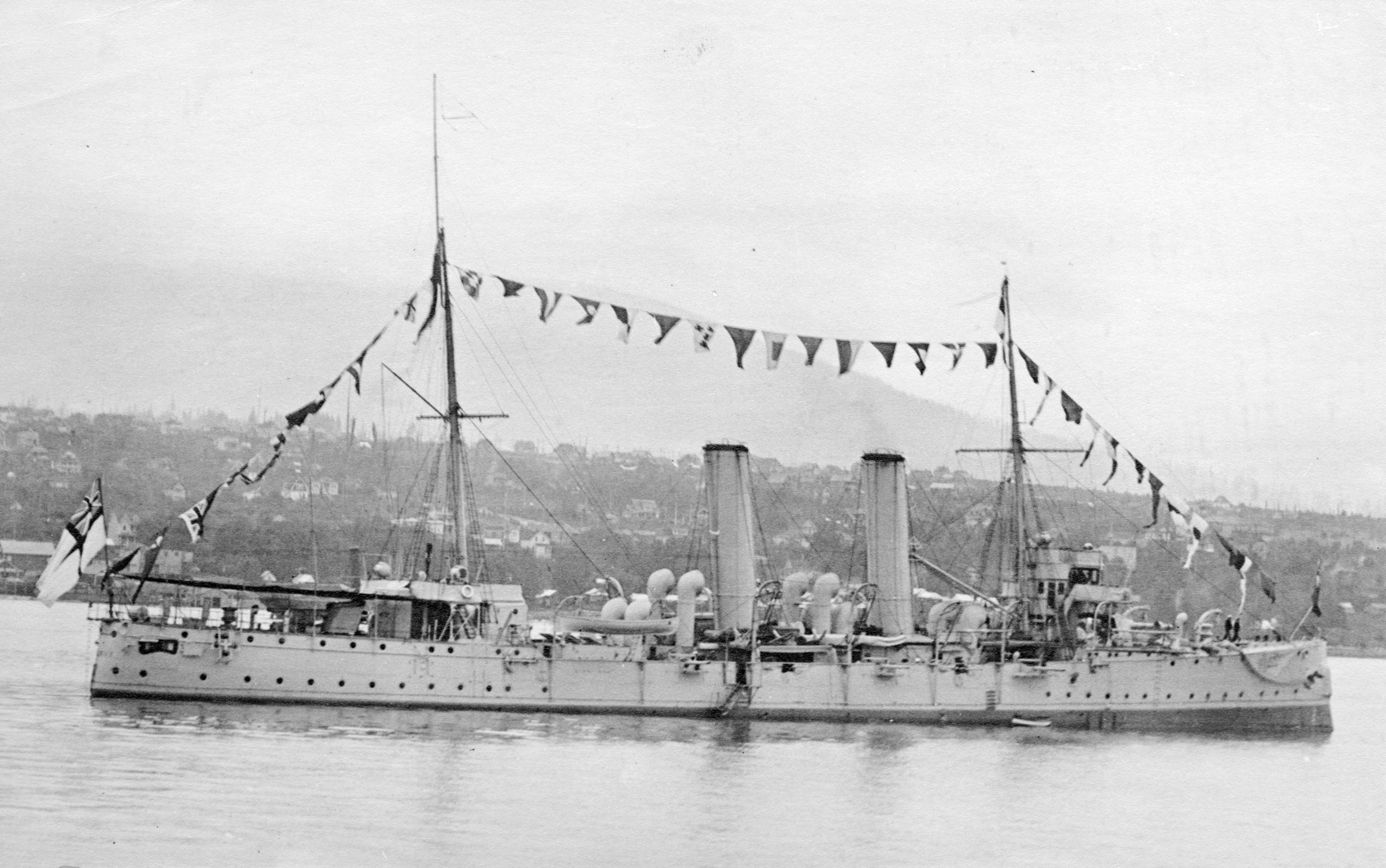 HMCS Rainbow at North Vancouver.